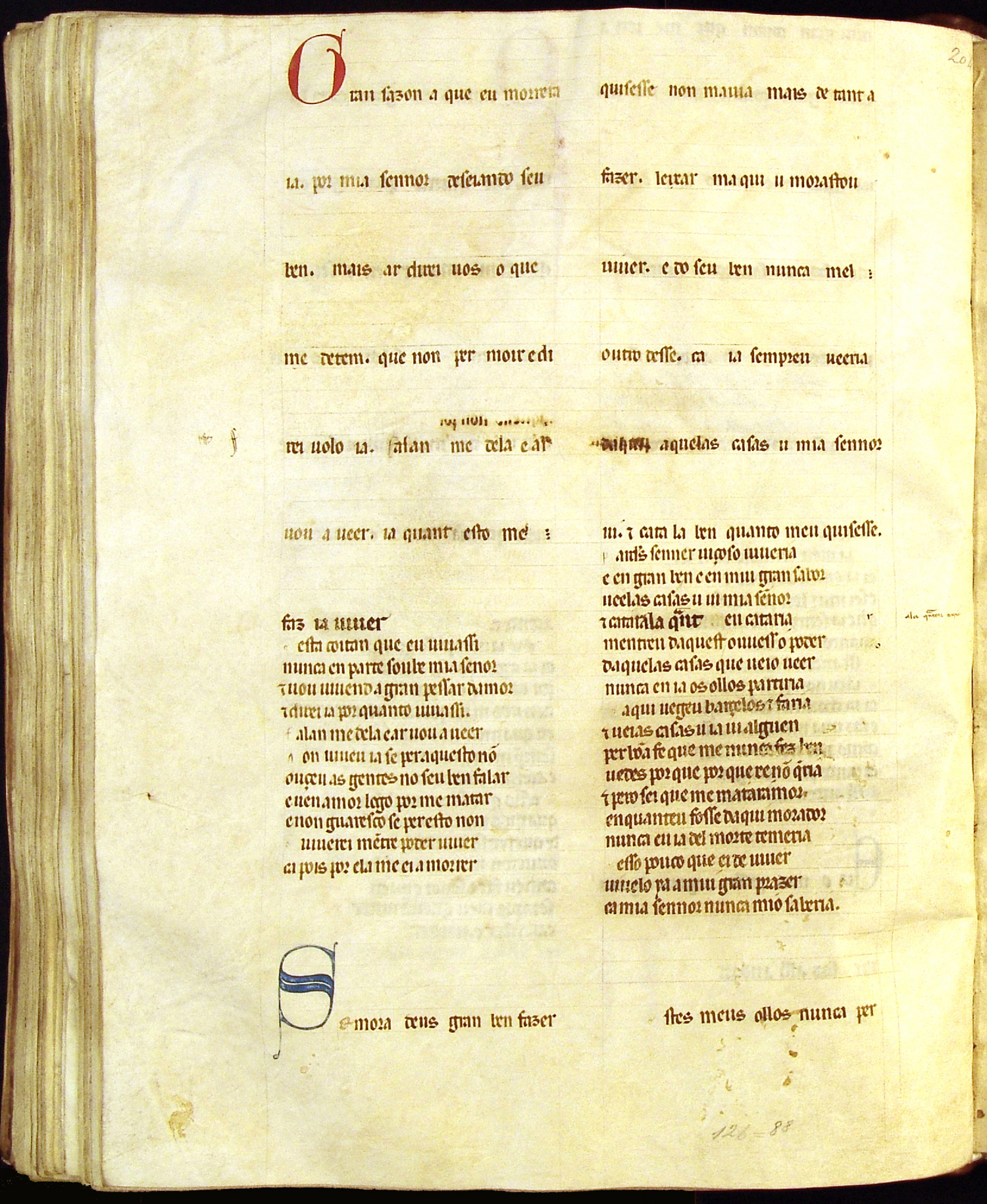 Cancioneiro da Ajuda manuscripts